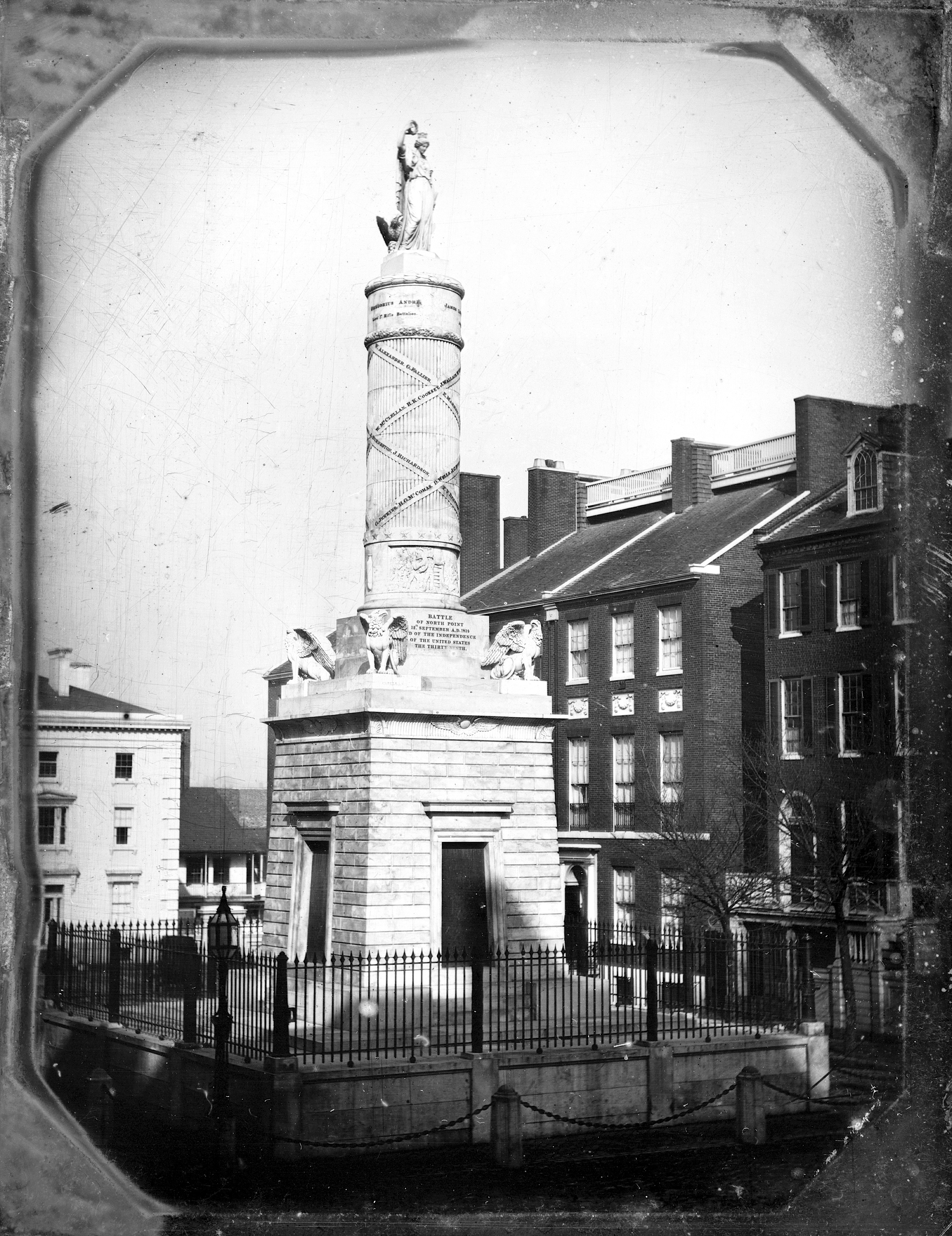 1846 view of Battle Monument